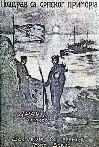 "Greetings from the Serbian coast. Durres. Souvenirs from the first Serbian harbor." Serbian postcard.